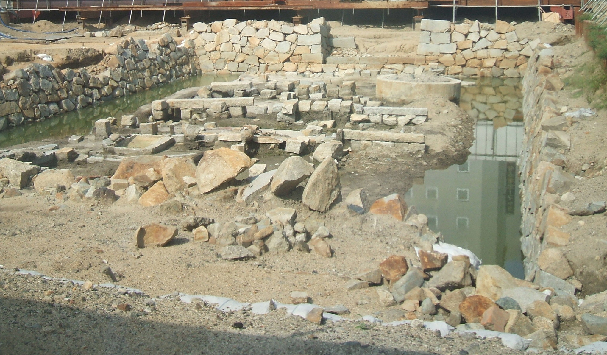 Excavated remains of a sluice at Fukuyama Castle (Bingo Province)